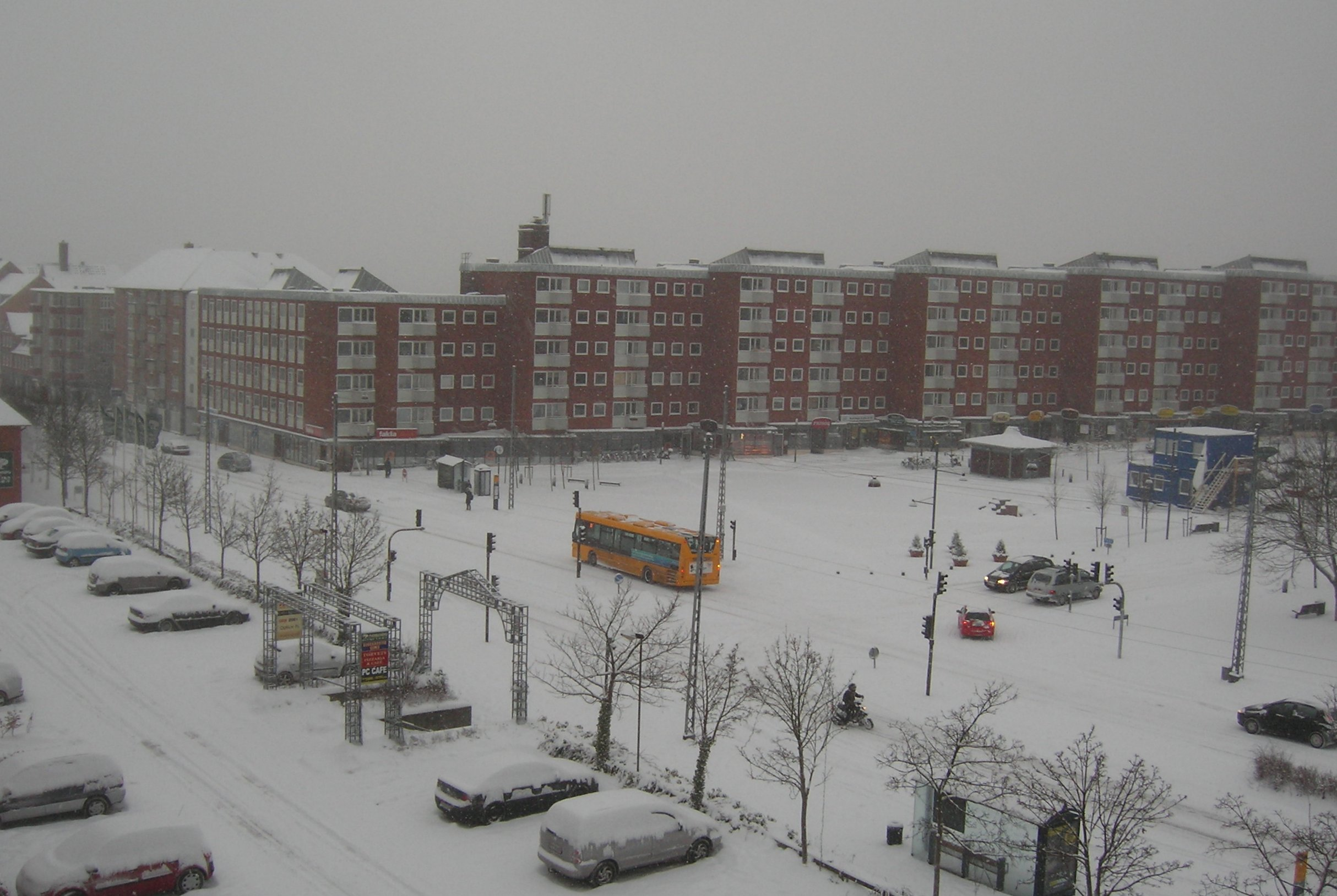 Søborg Torv in the snow